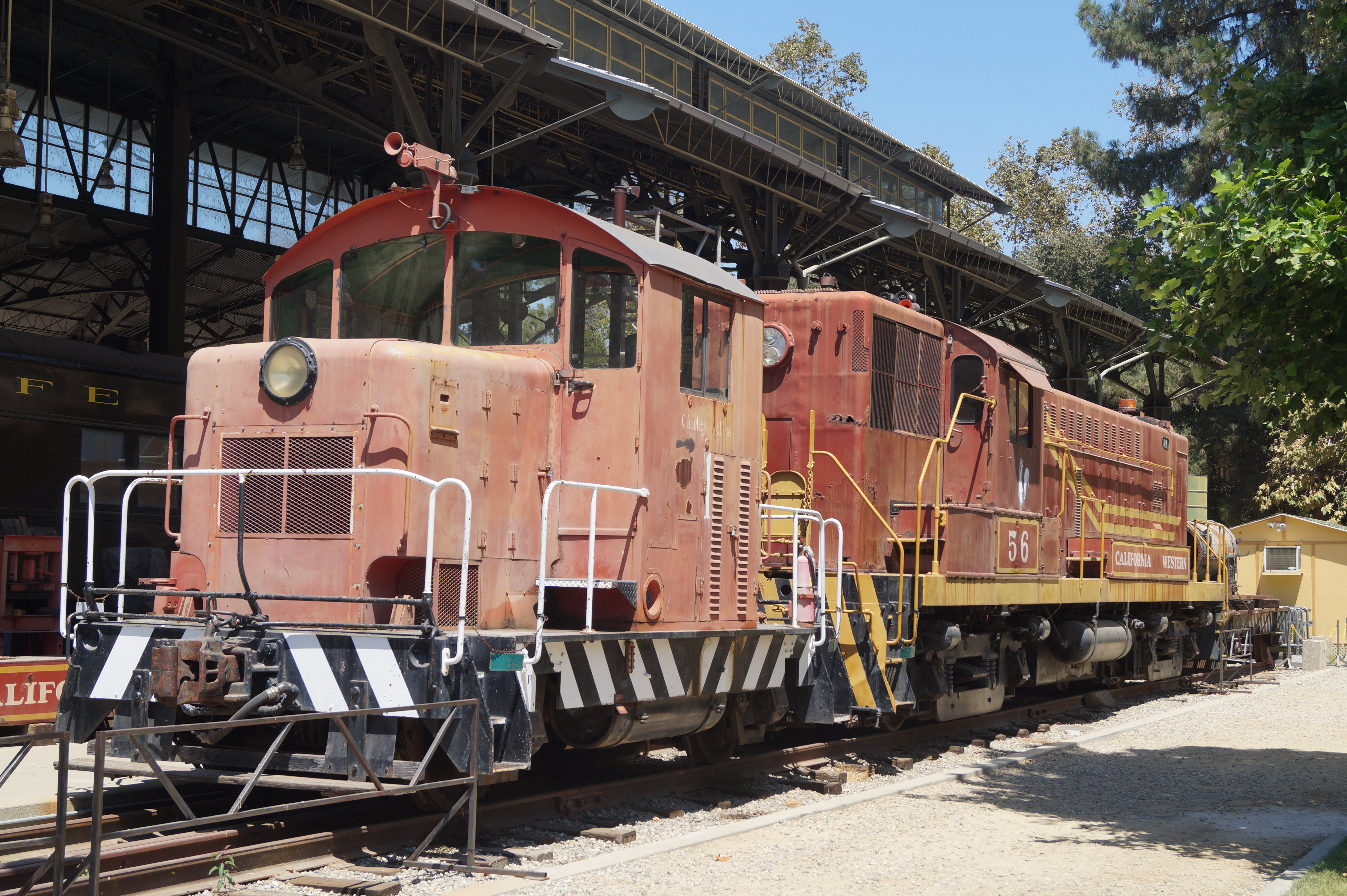 Travel Town Museum is a transport museum dedicated in the northwest corner of Los Angeles, California's Griffith Park. The history of railroad transportation in the western United States from 1880 to the 1930s is the primary focus of the museum's collection, with an emphasis on railroading in Southern California and the Los Angeles area.